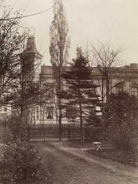 Johan Christian Colletts house